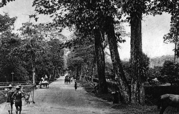 Orchard Road, Singapore, before 1900: it has yet to become the shopping belt of the country.